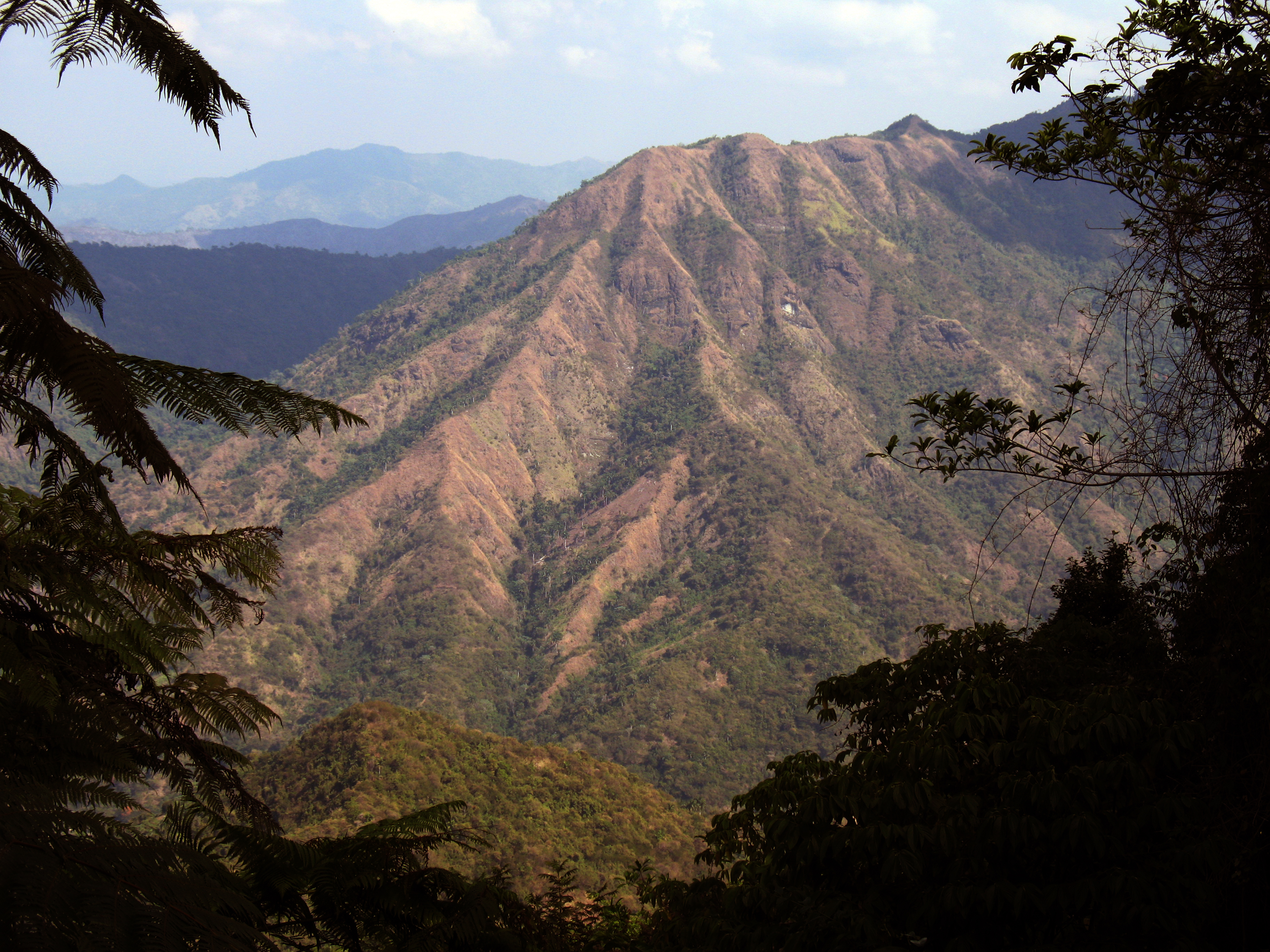 Sierra Maestra (Turquino National Park), Cuba